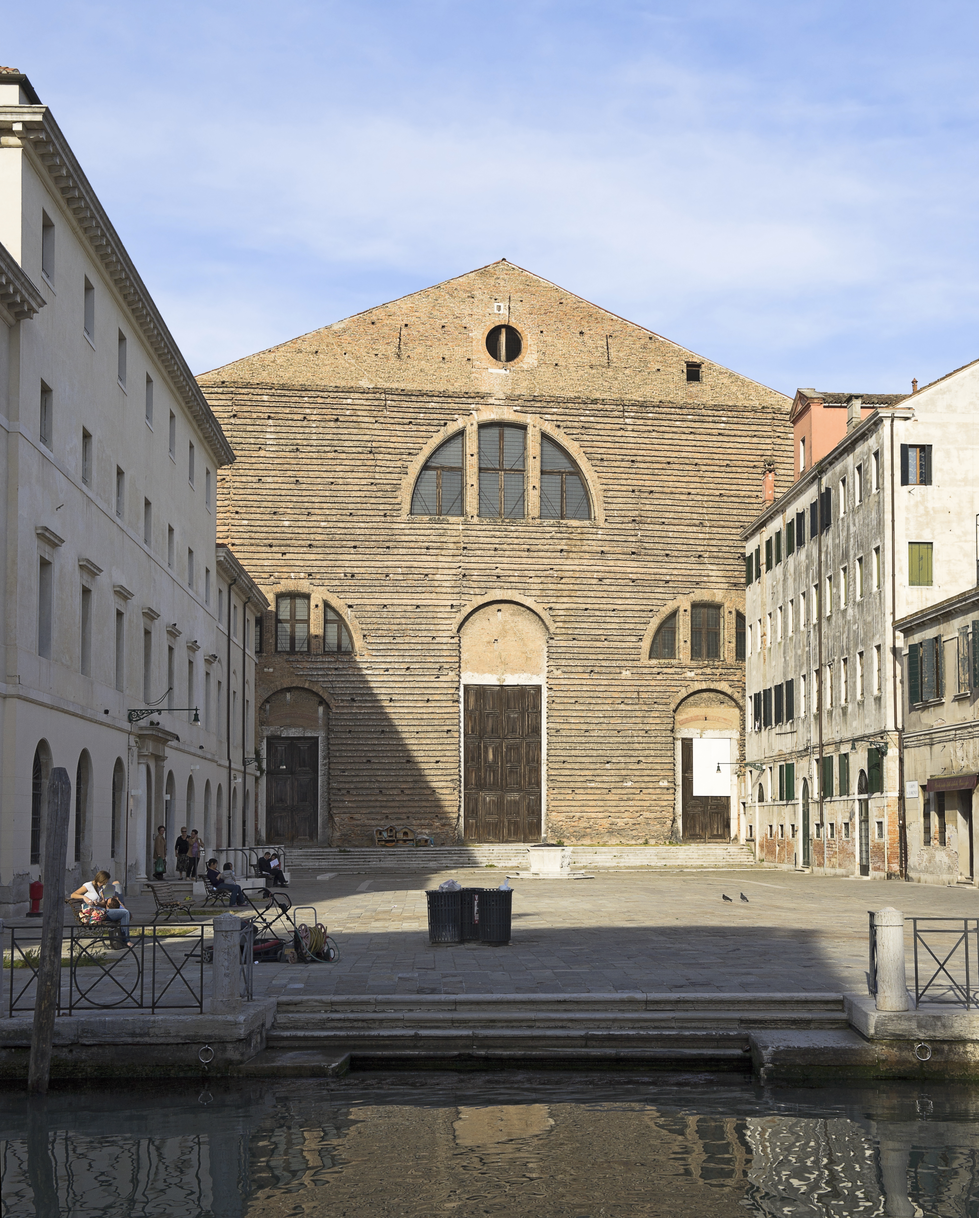 San Lorenzo, Venice: facade